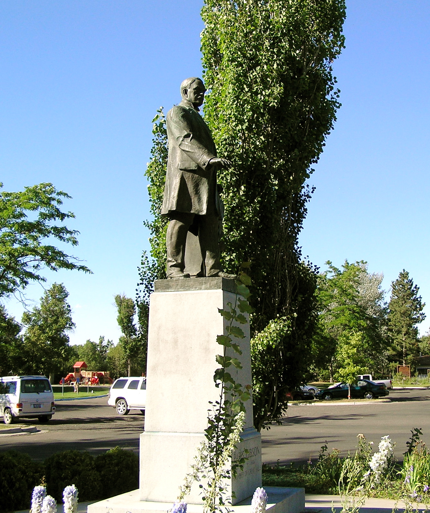 Statue of Paris Gibson (1830-1920), founder of Great Falls, MT, statue located in Gibson park, Great Falls, Montana